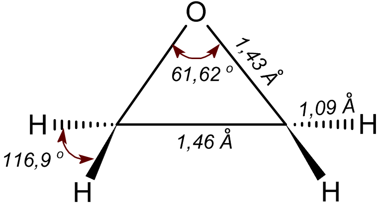 Ethylene oxide structure